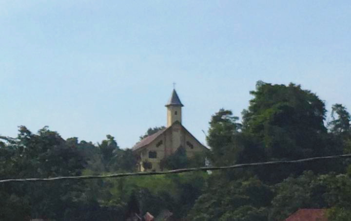 HKBP Ajibata, church in Ajibata, Toba Samosir